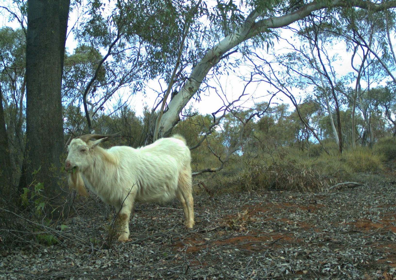 Image of a feral goat browsing on Kurrajong (Brachychiton populneus) leaves in the Yathong Nature Reserve, NSW. Image captured using a Reconyx camera trap, on a field trip by Charles Sturt University environmental science students.